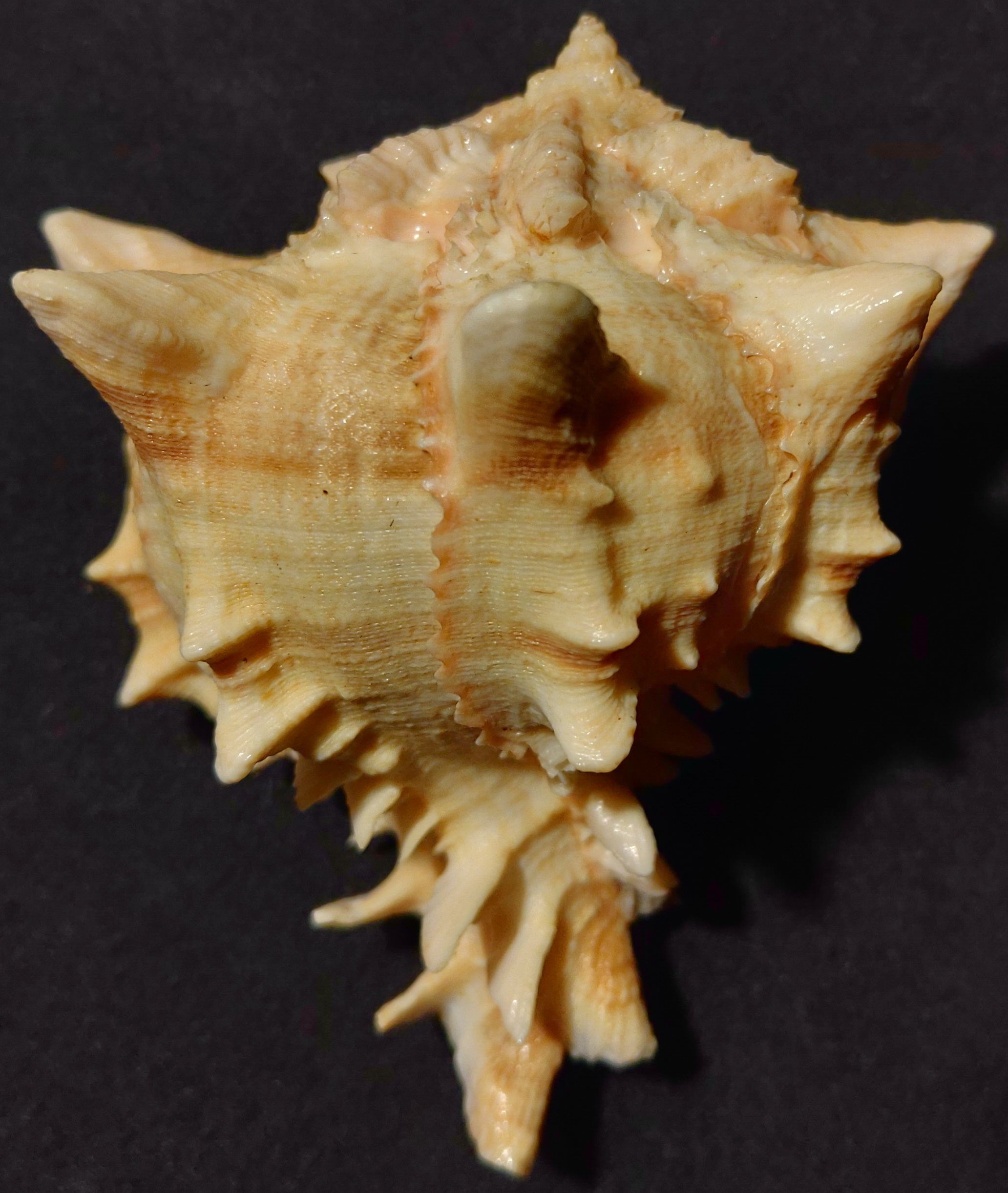 Hexaplex Brassica Back